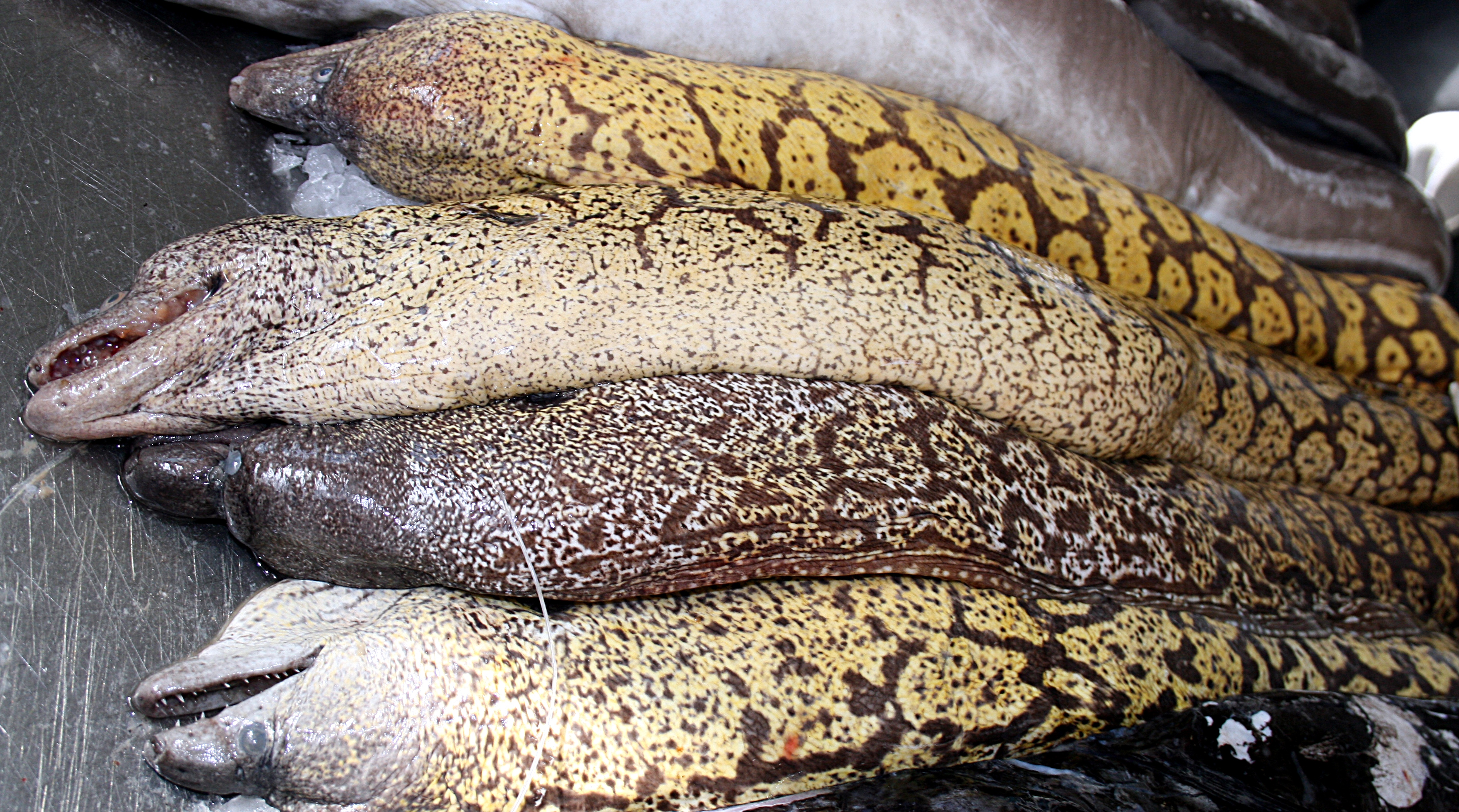 Muraena helena, Funchal_Markthalle 1718